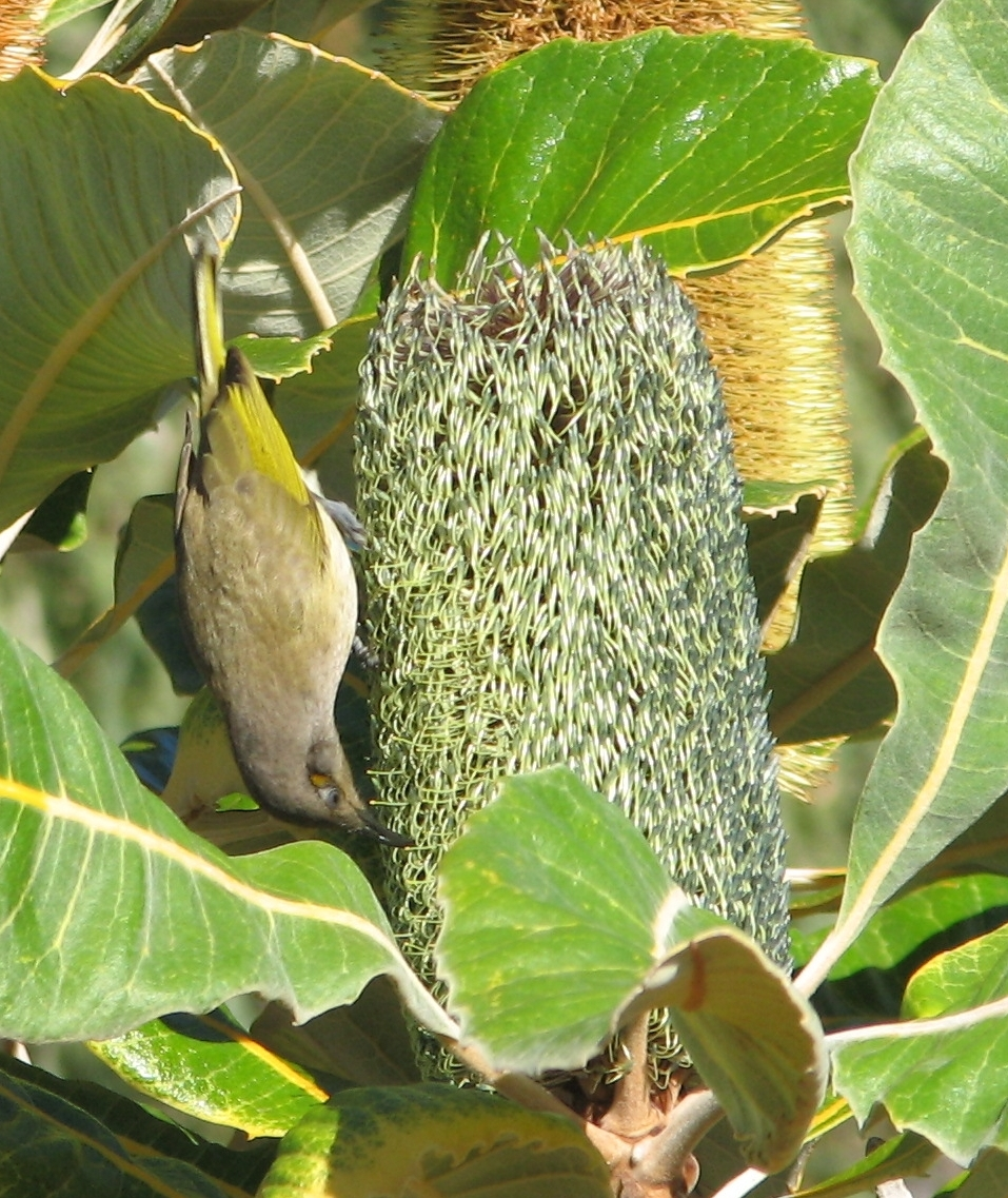 The Brown Honeyeater Lichmera indistincta is just one of more than 210 bird species found in Lake Awoonga, Central Queensland. Here foraging on Banksia robur.